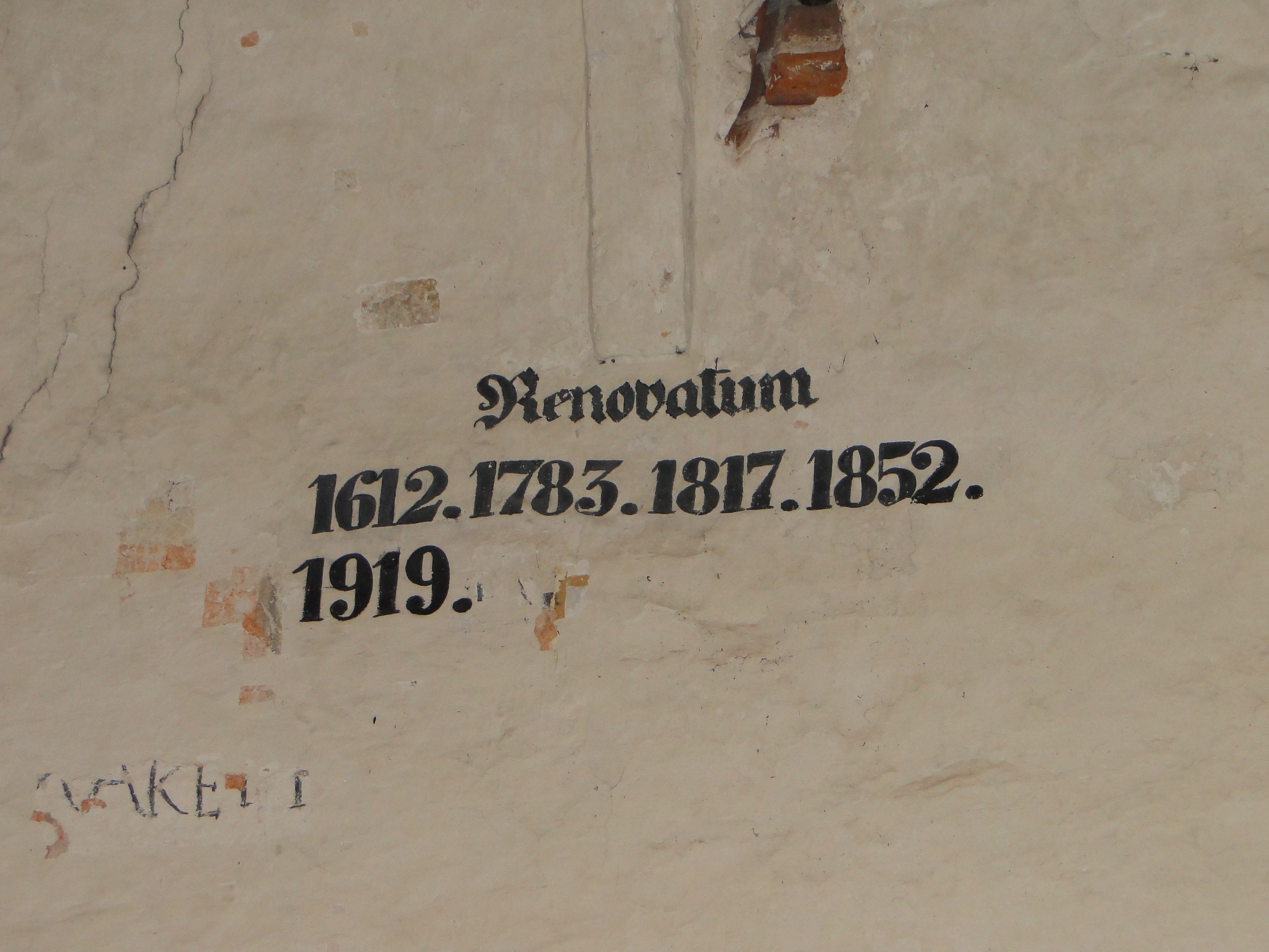 Church in Zehna, district Rostock, Mecklenburg-Vorpommern, Germany